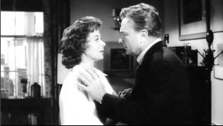 Screenshot of Susan Hayward and Eddie Albert from the trailer for the film I'll Cry Tomorrow (1955).